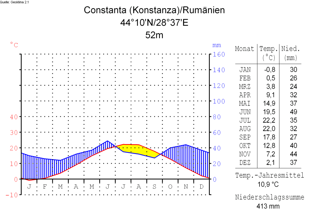 climate chart in the format by Walter and Lieth, metric, °Celsisus and millimeters, made with Geoklima 2.1